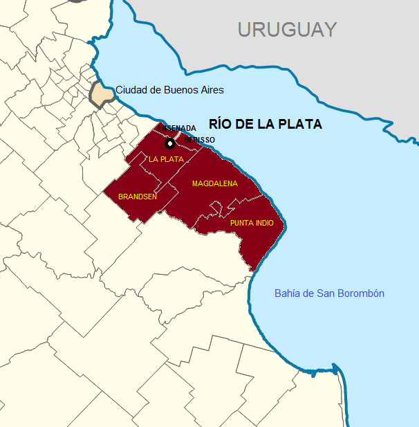 Edelap (Argentina) electricity area concesion.